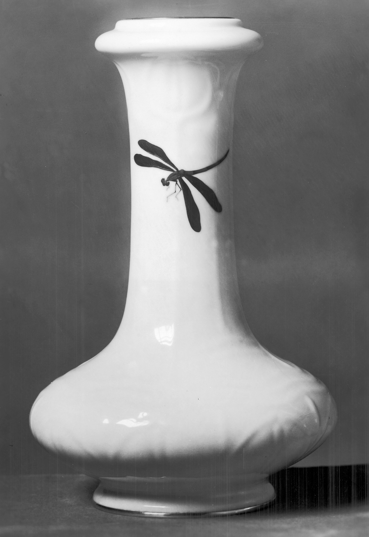 A long-necked vase white enamel moriage (relief) design to imitate ceramics and a dragonfly depicted in colored enamels on the neck. Mark of Ando Jubei on bottom.